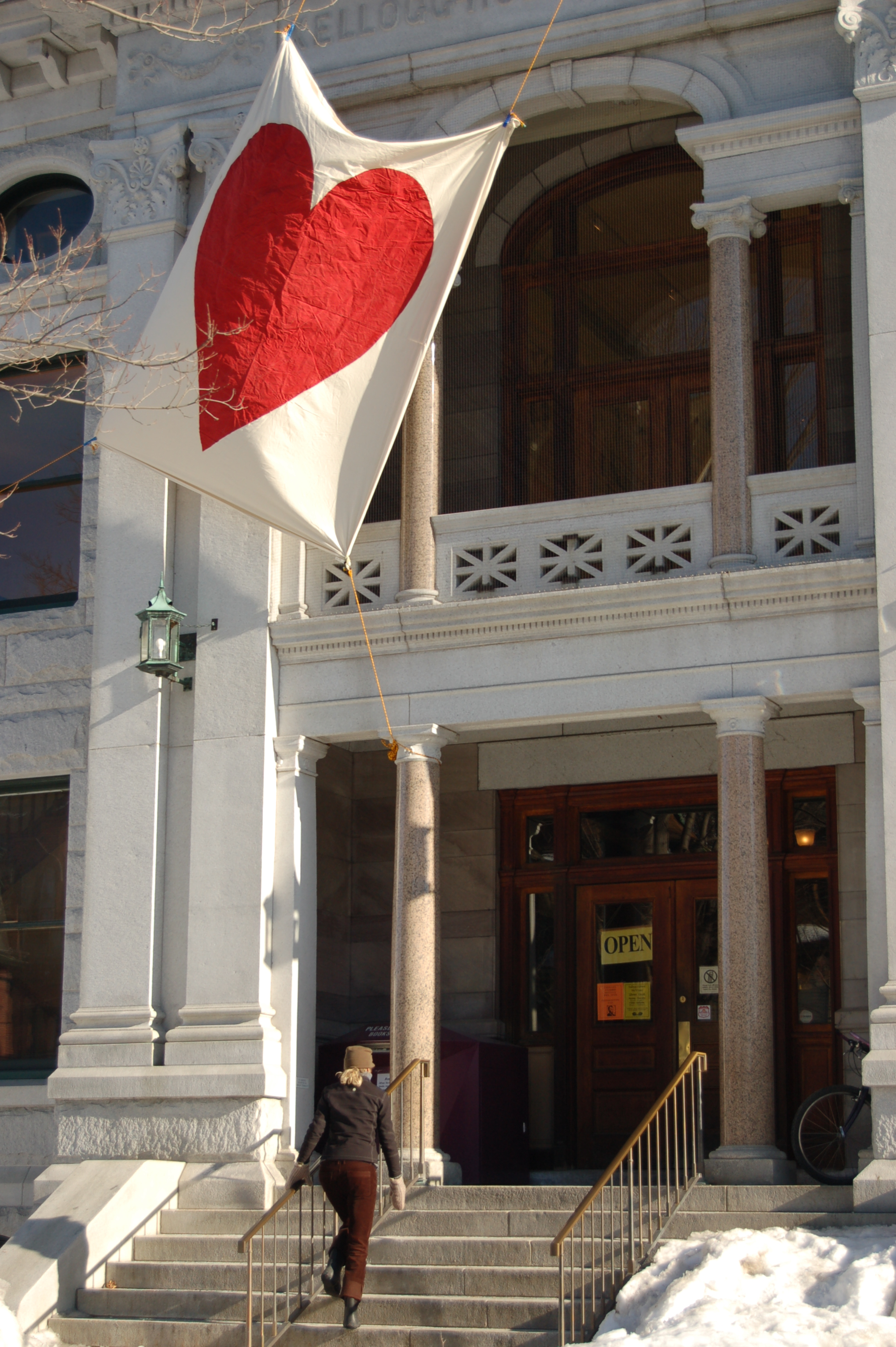 A Valentine Phantom hit the Kellogg-Hubbard Library on Main Street in Montpelier, Vermont with a heart banner, February 14, 2009.